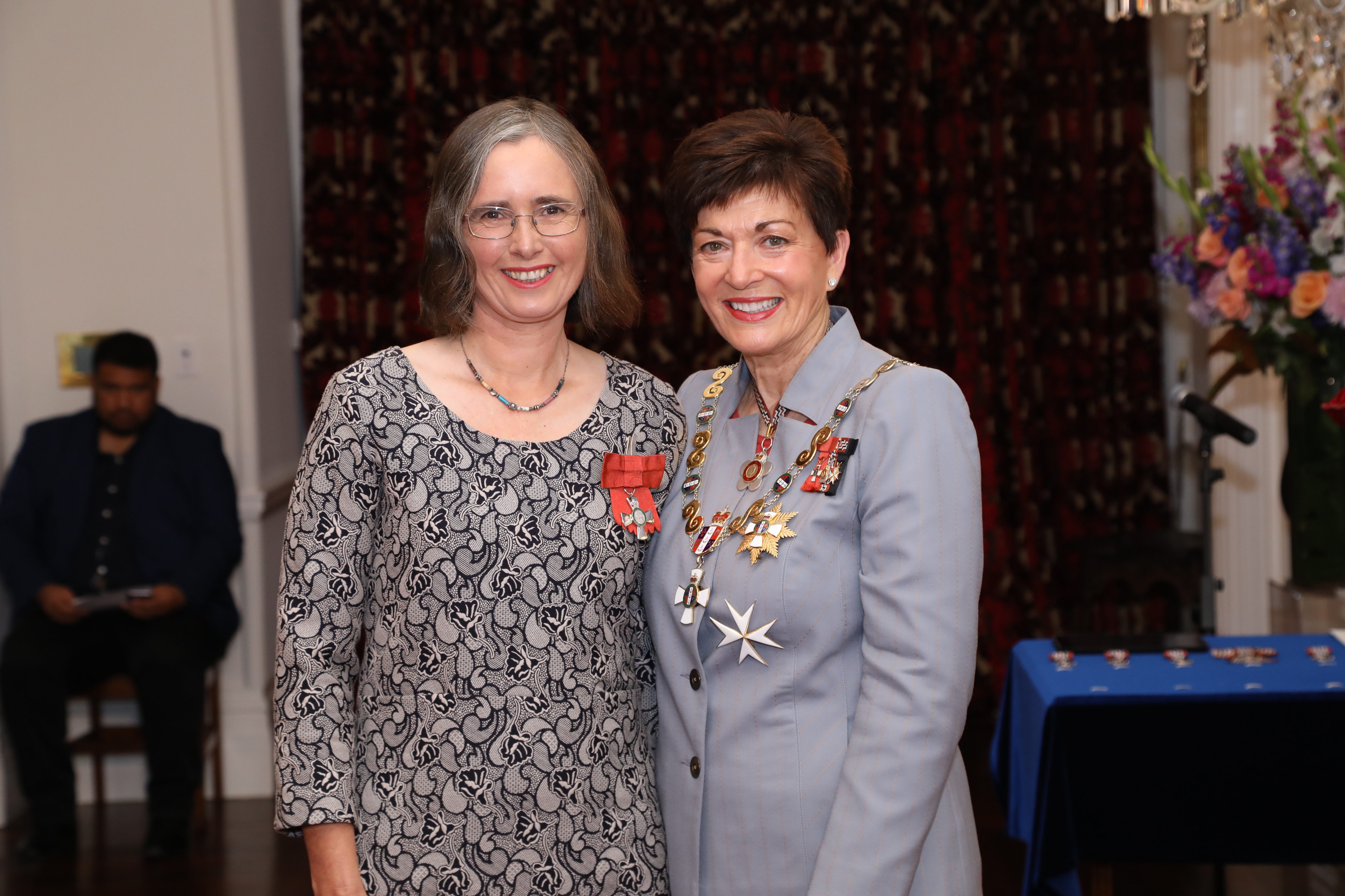 Mojo Mathers (left), after her investiture as MNZM, for services to people with disabilities, by the governor-general, Dame Patsy Reddy, on 2 May 2019.